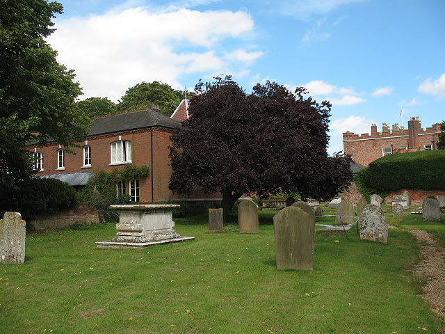 Hunsdon House, a former royal dwelling in Hertfordshire, England